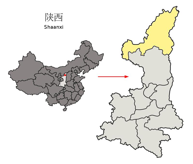 Location of Yulin Prefecture (yellow) within Shaanxi Province of China Map drawn in december 2007 using various sources, mainly : Shaanxi Province administrative regions GIS data: 1:1M, County level, 1990 Shaanxi Counties map from